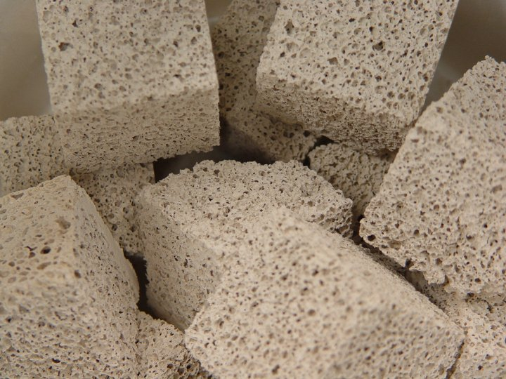 This porous ceramic has interconnected cells that vary in size from 5-500 microns.